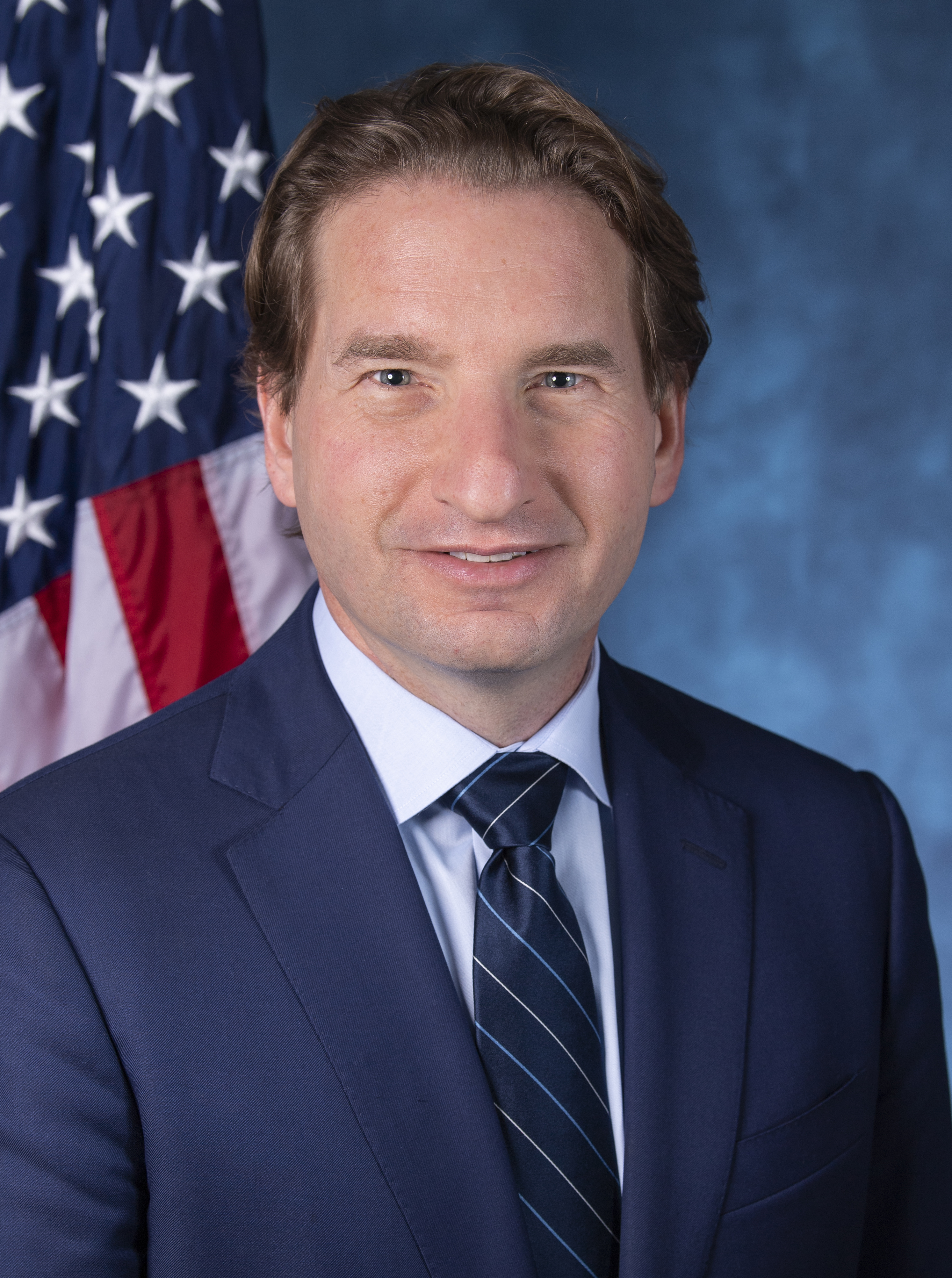 Rep. Dean Phillips (D-MN03)